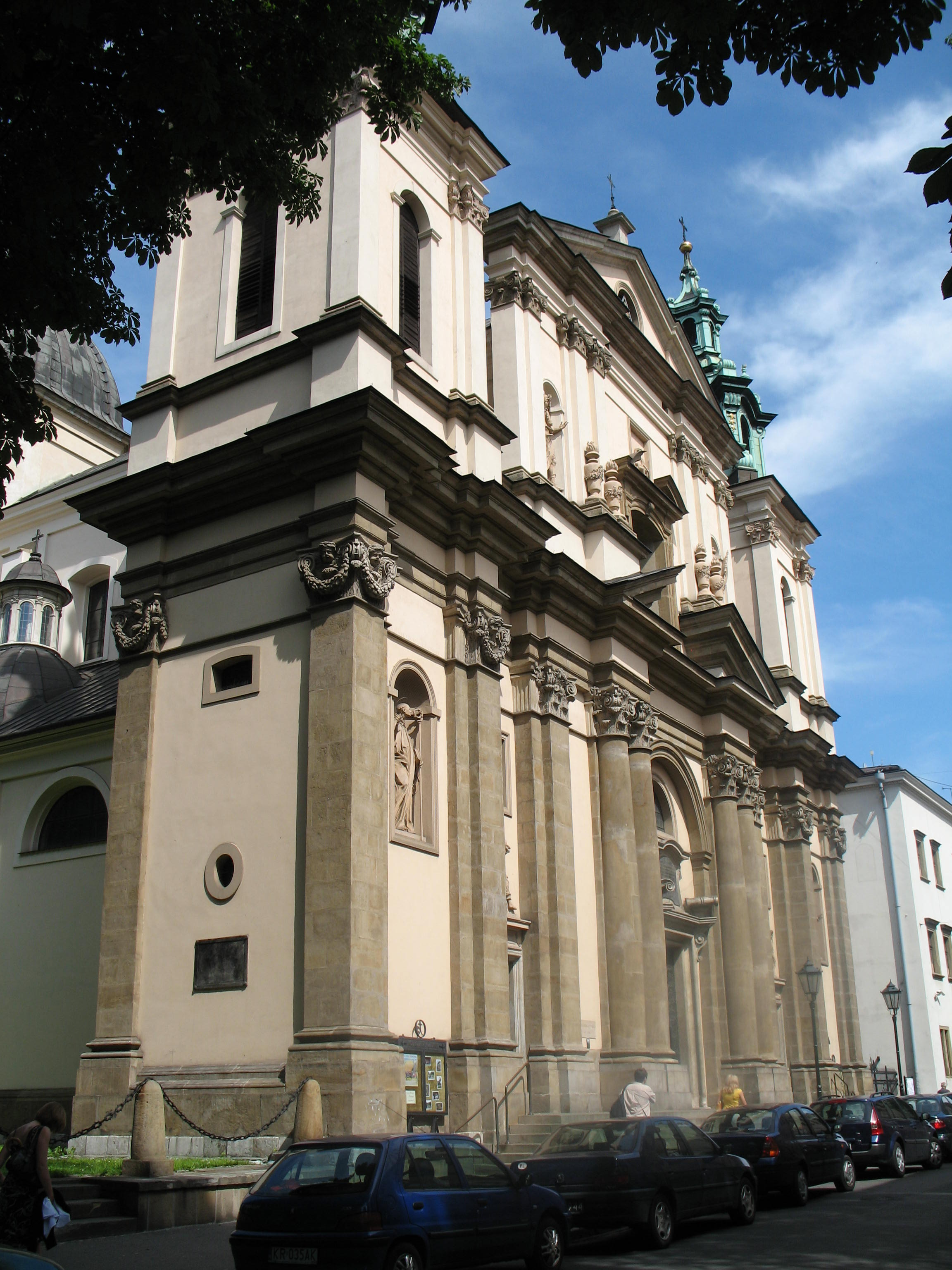 St. Anne in Kraków, Poland